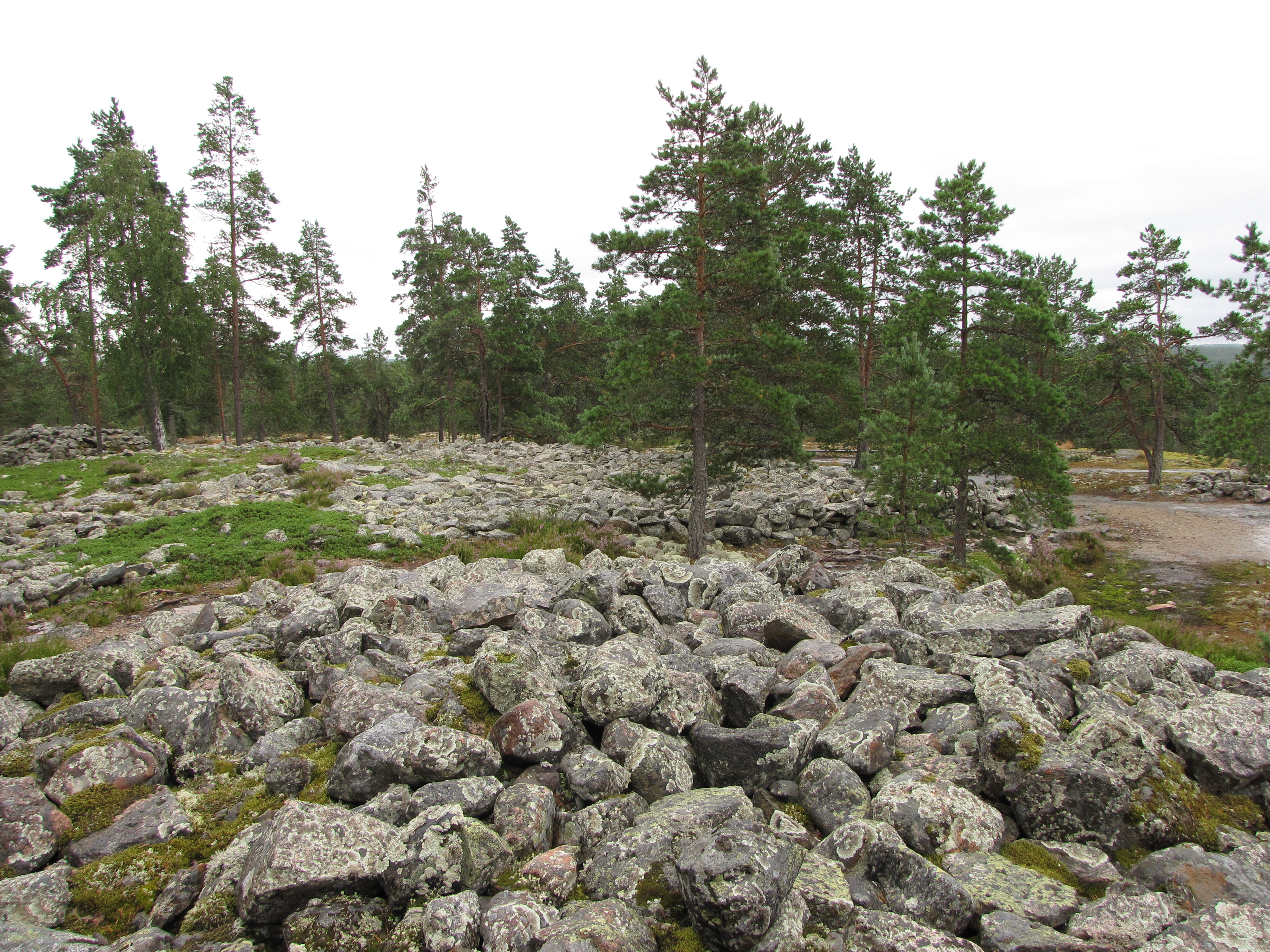 Sammallahdenmäki, a Bronze age burial site in Finland in Rauma municipality. It was designated by UNESCO as a World Heritage Site in 1999.